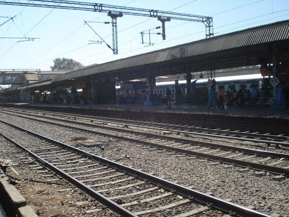 View of GWL Railway Station